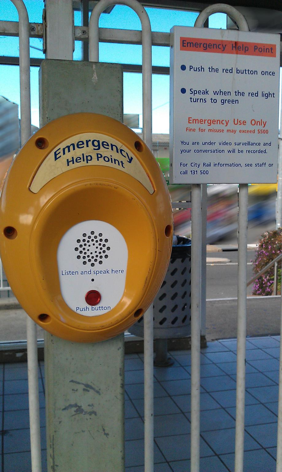 an emergency help point at a CityRail station with instructions panel